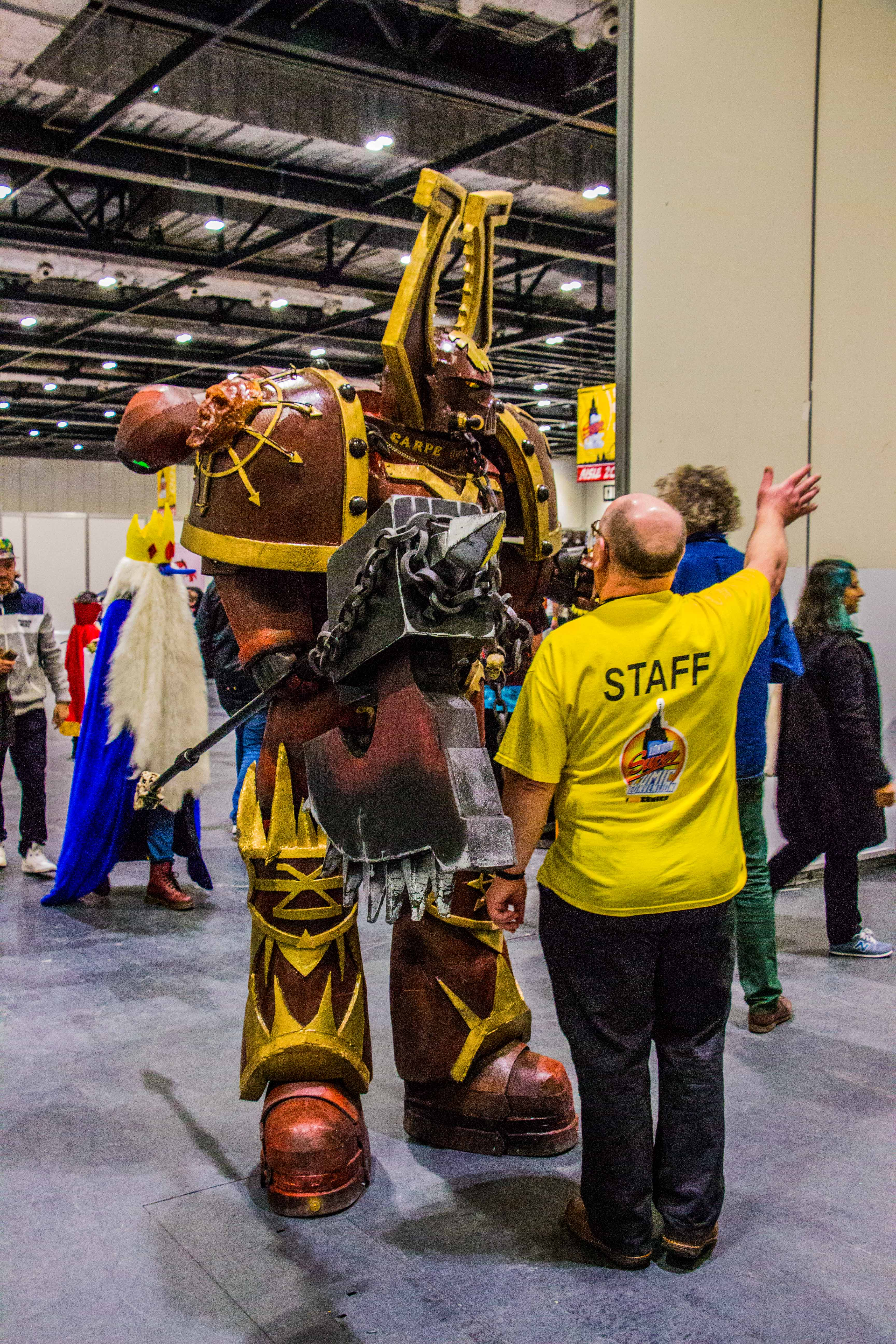 David Roth (aka Exeter Cosplay) cosplaying as a World Eater Chaos Marine and talking to a member of convention staff at London Super Comic Con 2016.